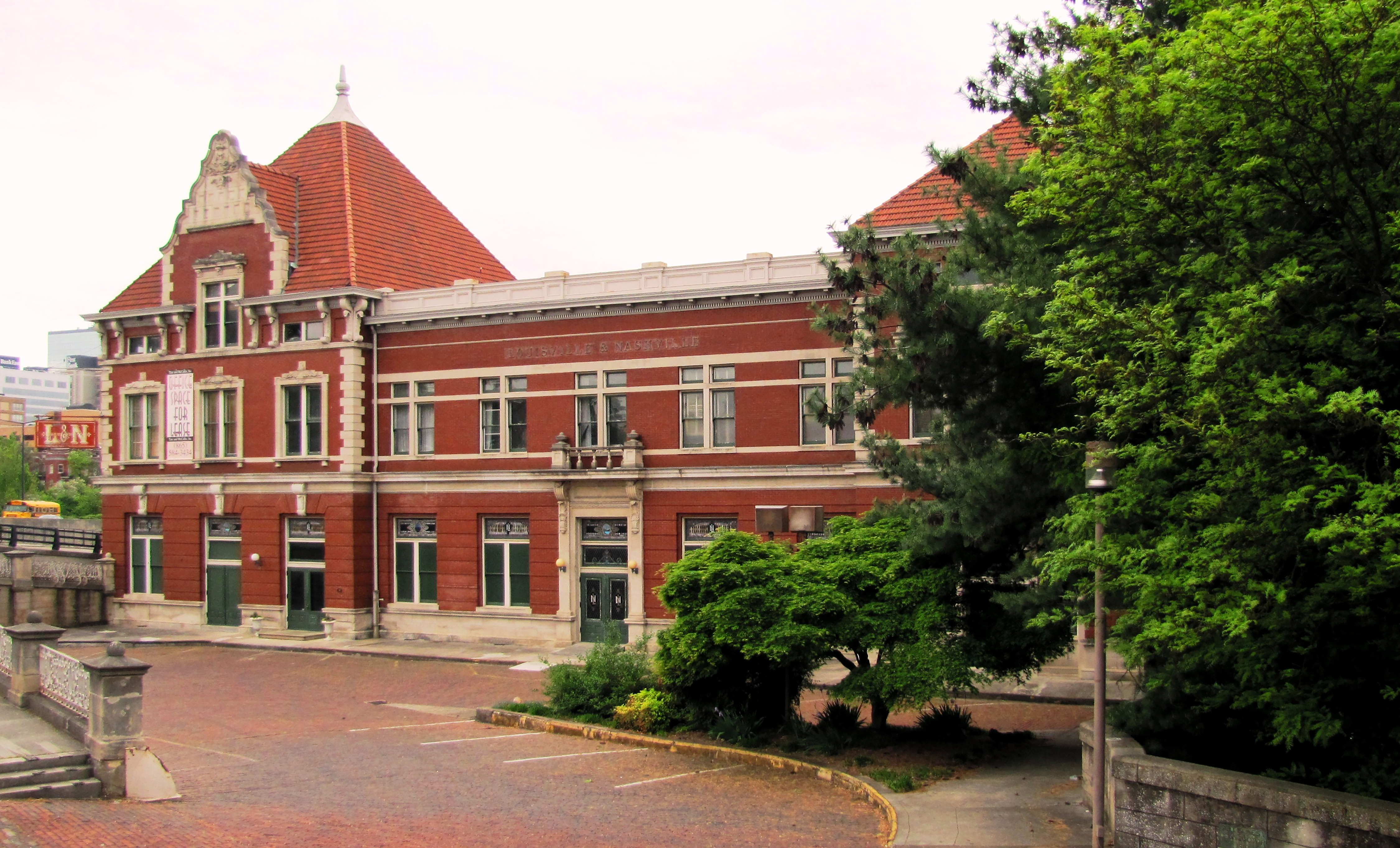 The NRHP-listed L&N passenger station in Knoxville, Tennessee, USA.